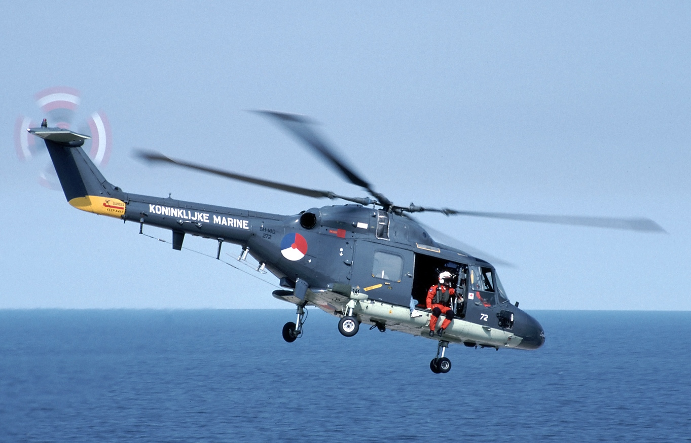 A Dutch Navy Lynx over the beach at Katwijk during a SAR demonstration. August 1994